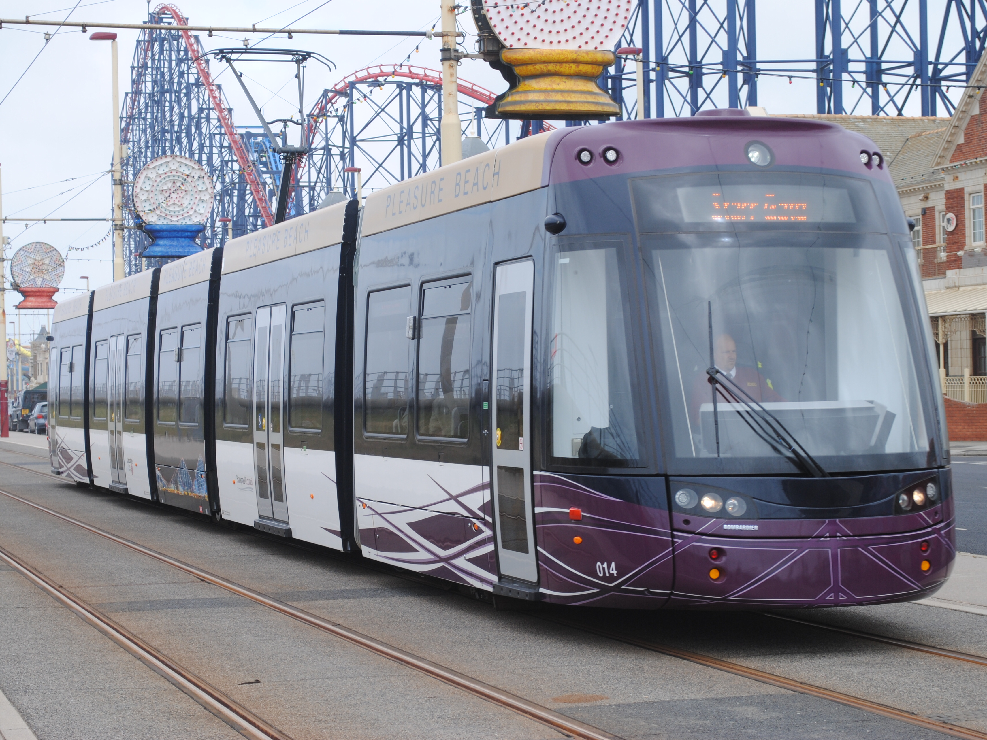 Bombardier Flexity